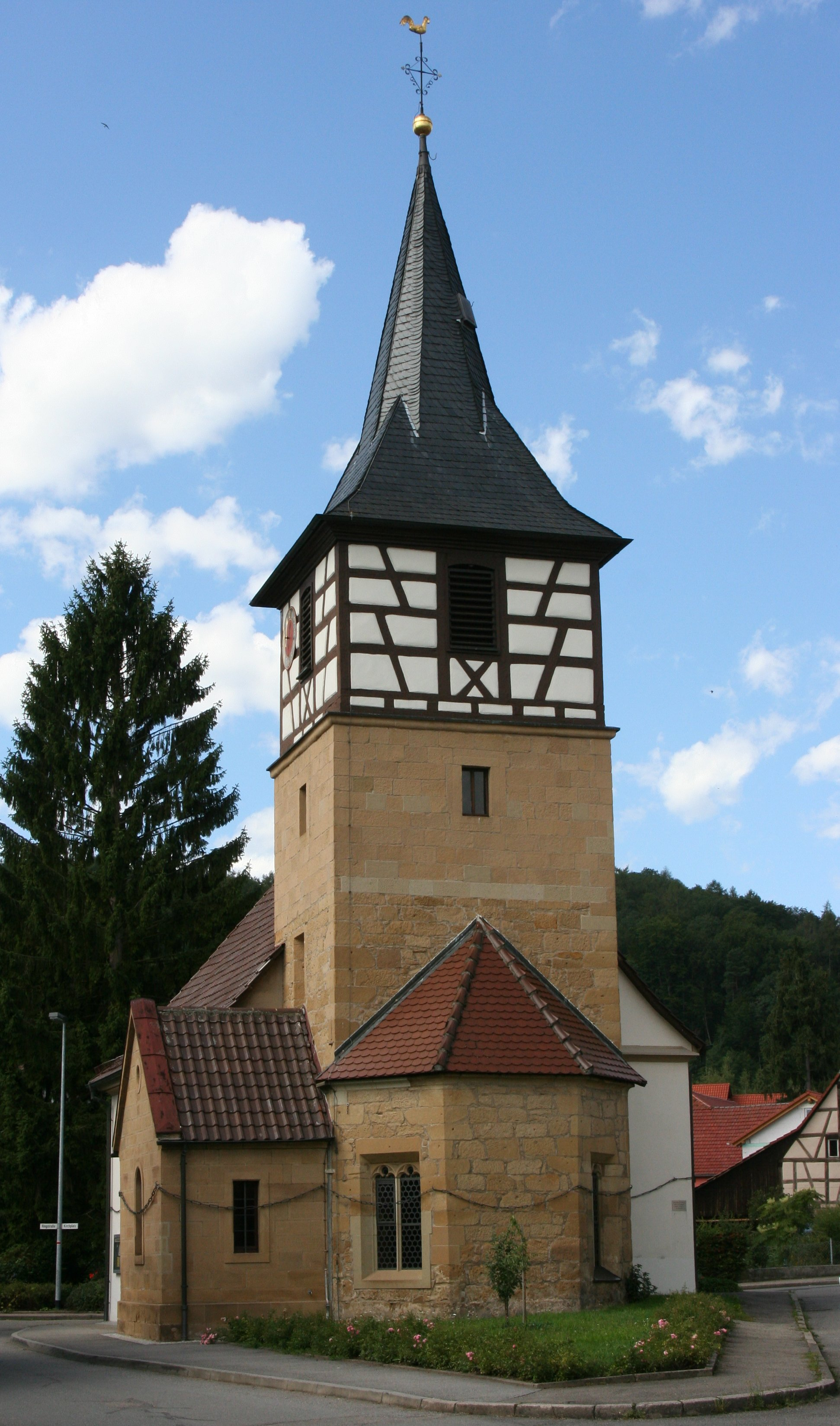 The church of St Leonard in Weinsberg-Gellmersbach